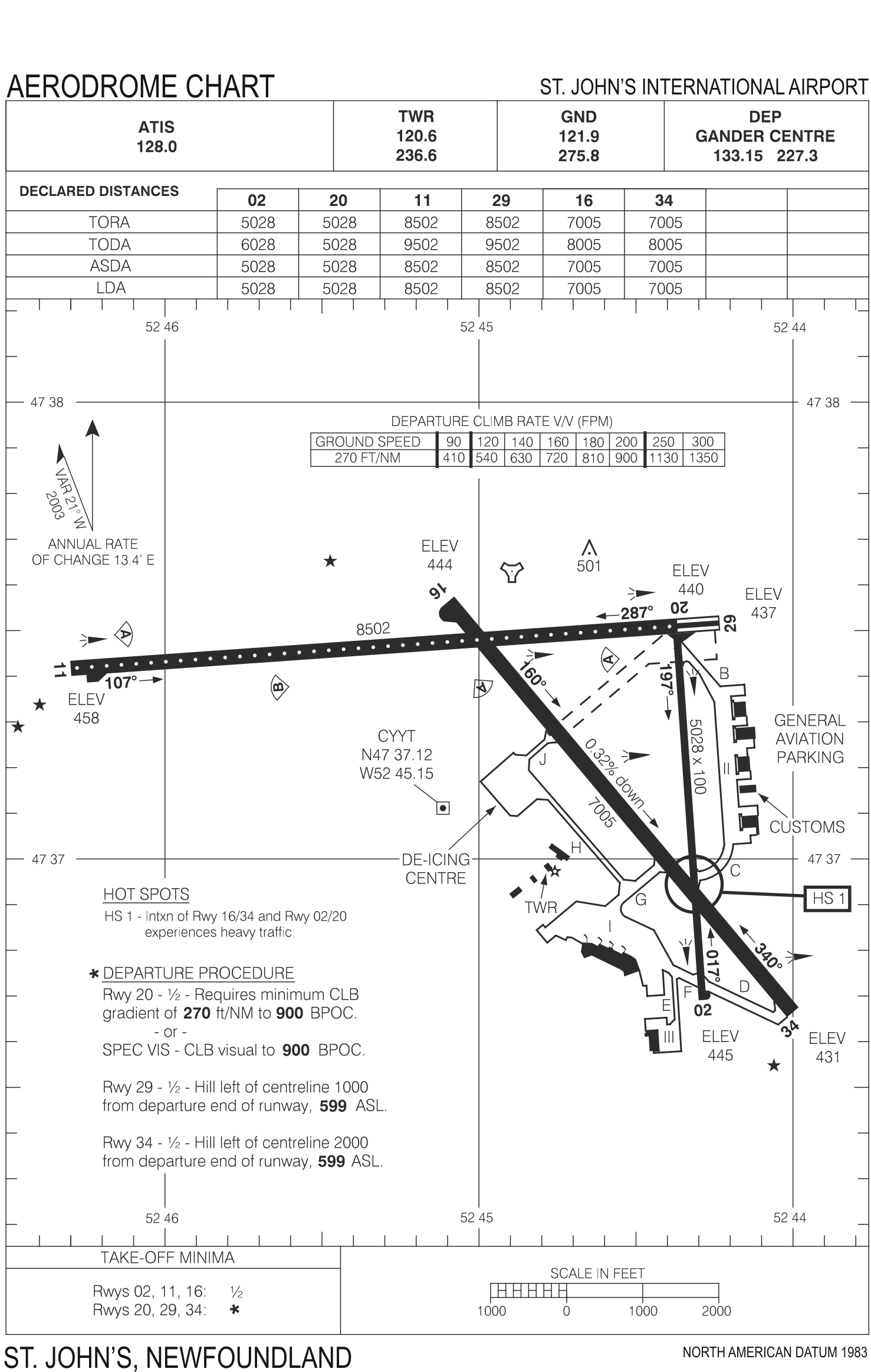 Aerodrome chart, St. John's International Airport